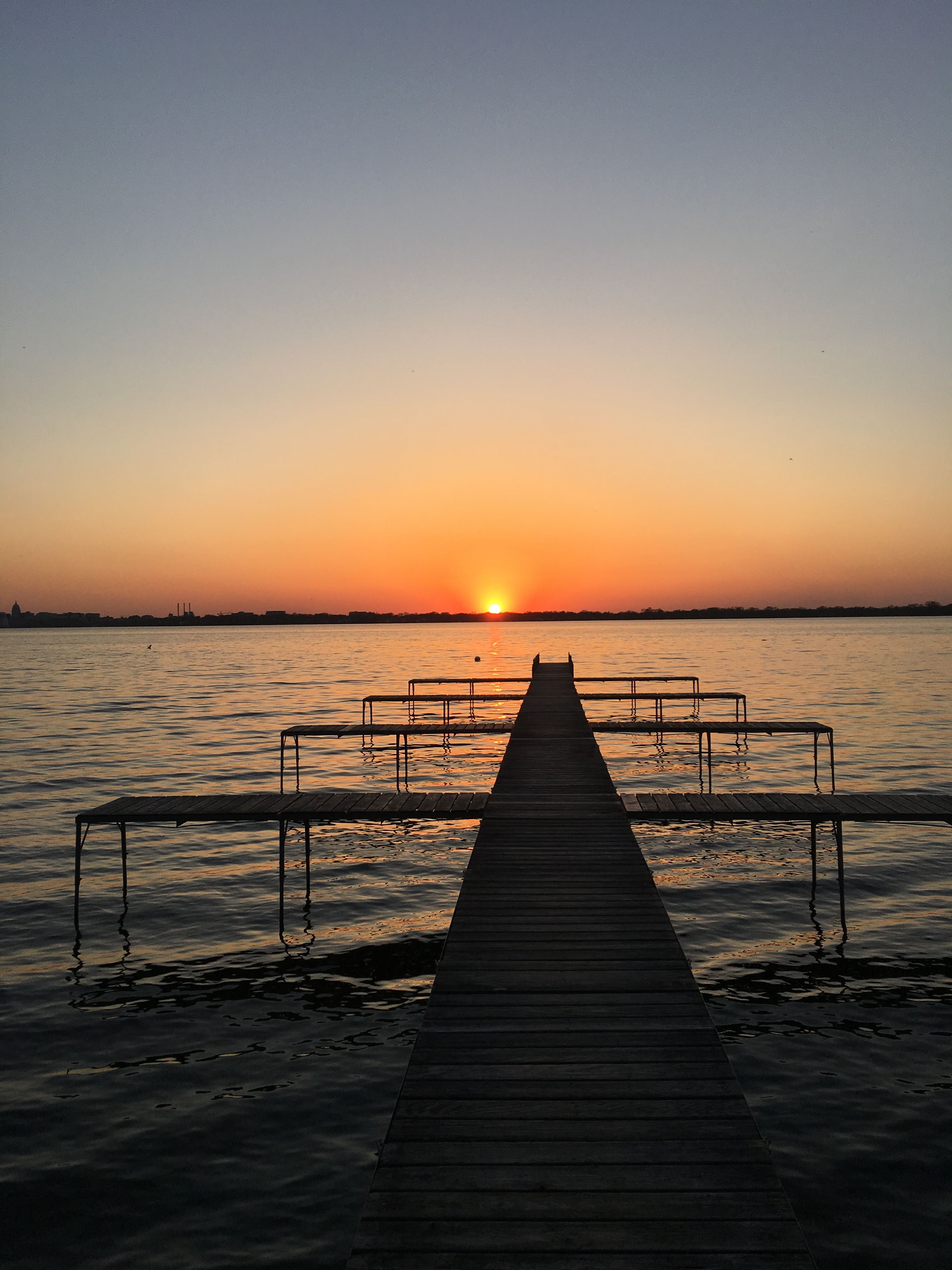 Pleasure and boat docking pier in Monona, Wisconsin's "Stone Bridge Park" during sunset over Lake Monona in the USA